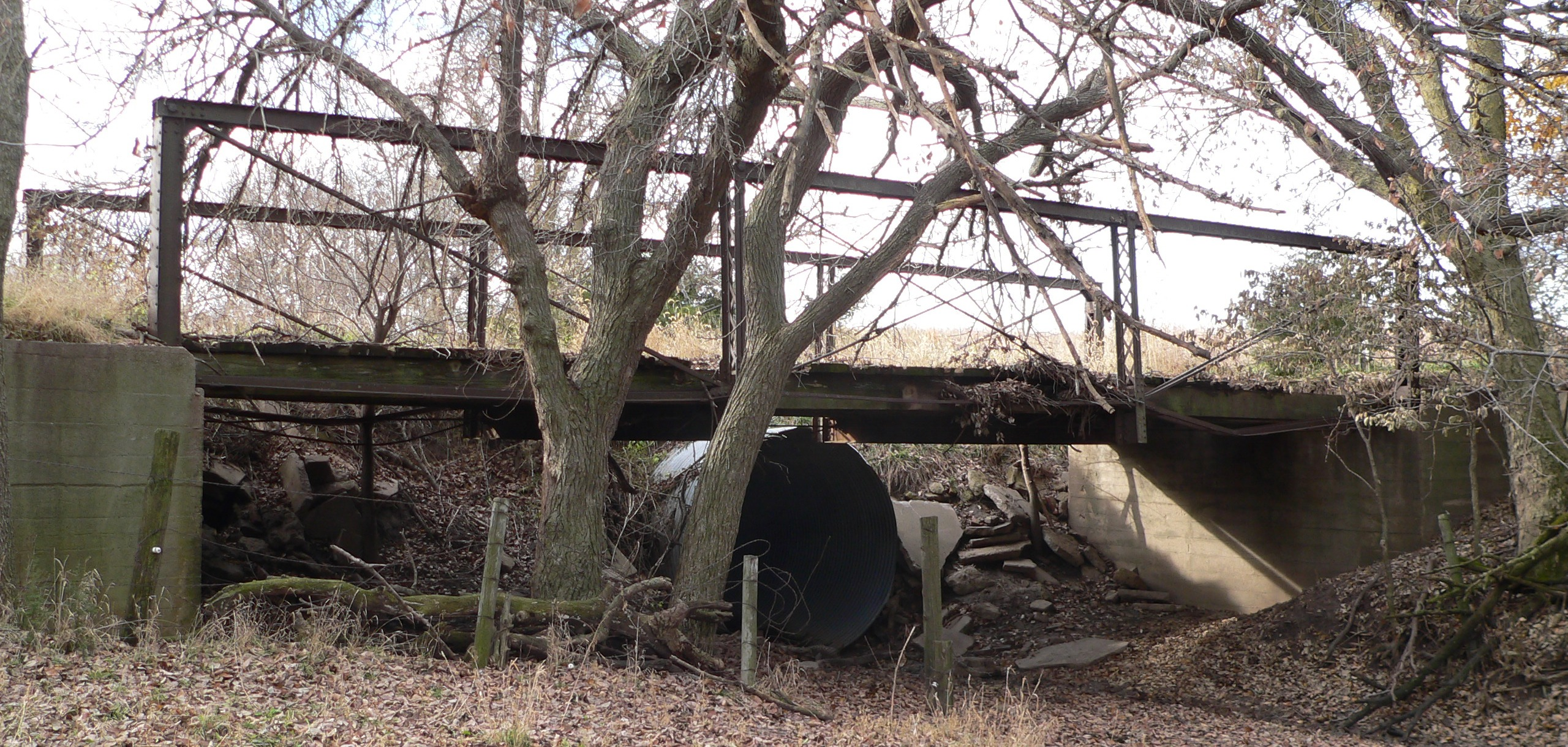 Turkey Creek Bridge in Harlan County, Nebraska. The bridge is located on County Road 722 just west of County Road P, southwest of Ragan. The picture was taken facing south (upstream). The pin-connected Pratt truss bridge was built in 1899 by the Canton Bridge Co. and the Jones & Laughlin Steel Co. The bridge is no longer in use: the road has been routed just upstream (south) of the bridge, and the creek passes under the present road through a corrugated-metal culvert, visible in the picture. The bridge is listed in the National Register of Historic Places.